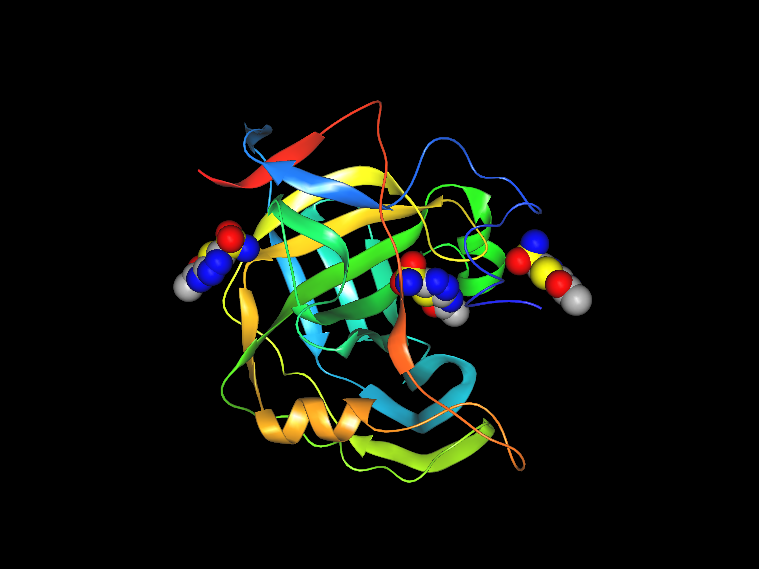 Human Carbonic Anhydrase II Complexed With Acetazolamide